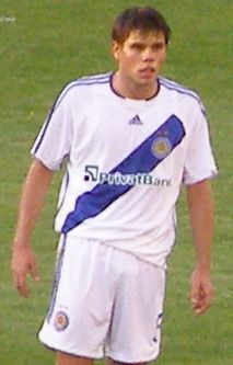 Ognjen Vukojević - Croatian footballer